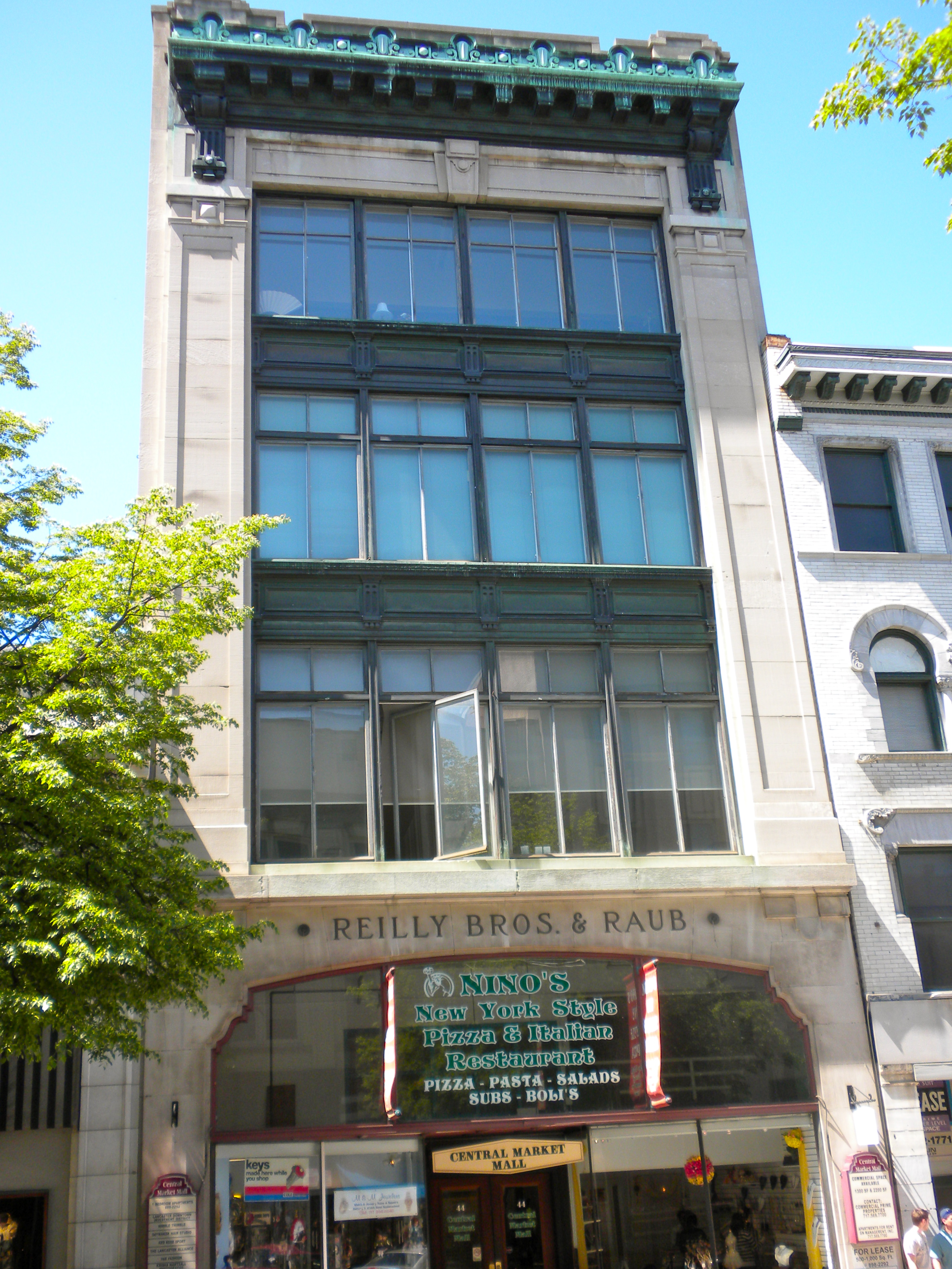 Reilly Brothers and Raub Building on NRHP since November 3, 1983. At 44–46 North Queen Street and 45 North Market Street, in the city of Lancaster, Pennsylvania, downtown.